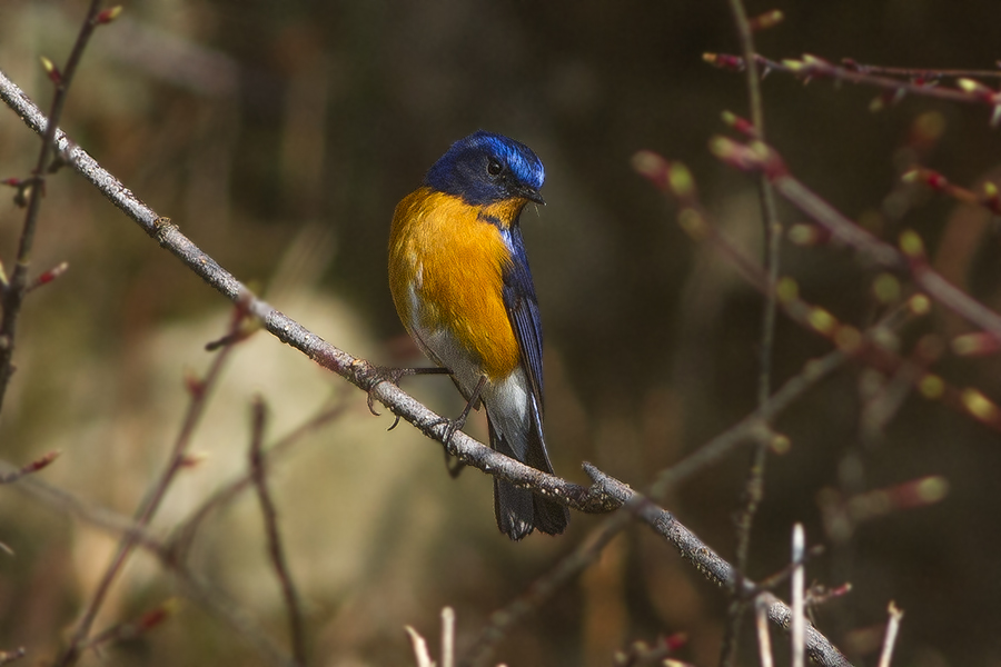 The species Rufous-breasted Bush Robin had been photographed from Pangolakha Wildlife Sanctuary in East Sikkim, India on 19.04.2016.